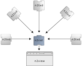 component structure of the n2 monitoring system